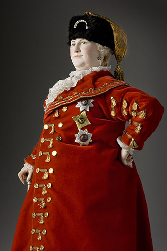 Historical Mixed Media Figure of Russian Empress Catherine II produced by artist/historian George S. Stuart and photographed by Peter d'Aprix. This image, from the George S. Stuart Gallery of Historical Figures® archive ( is provided for all uses with appropriate attribution. Any derivatives must be shared in the same manner. Contributor mharrsch is webmaster for the gallery site